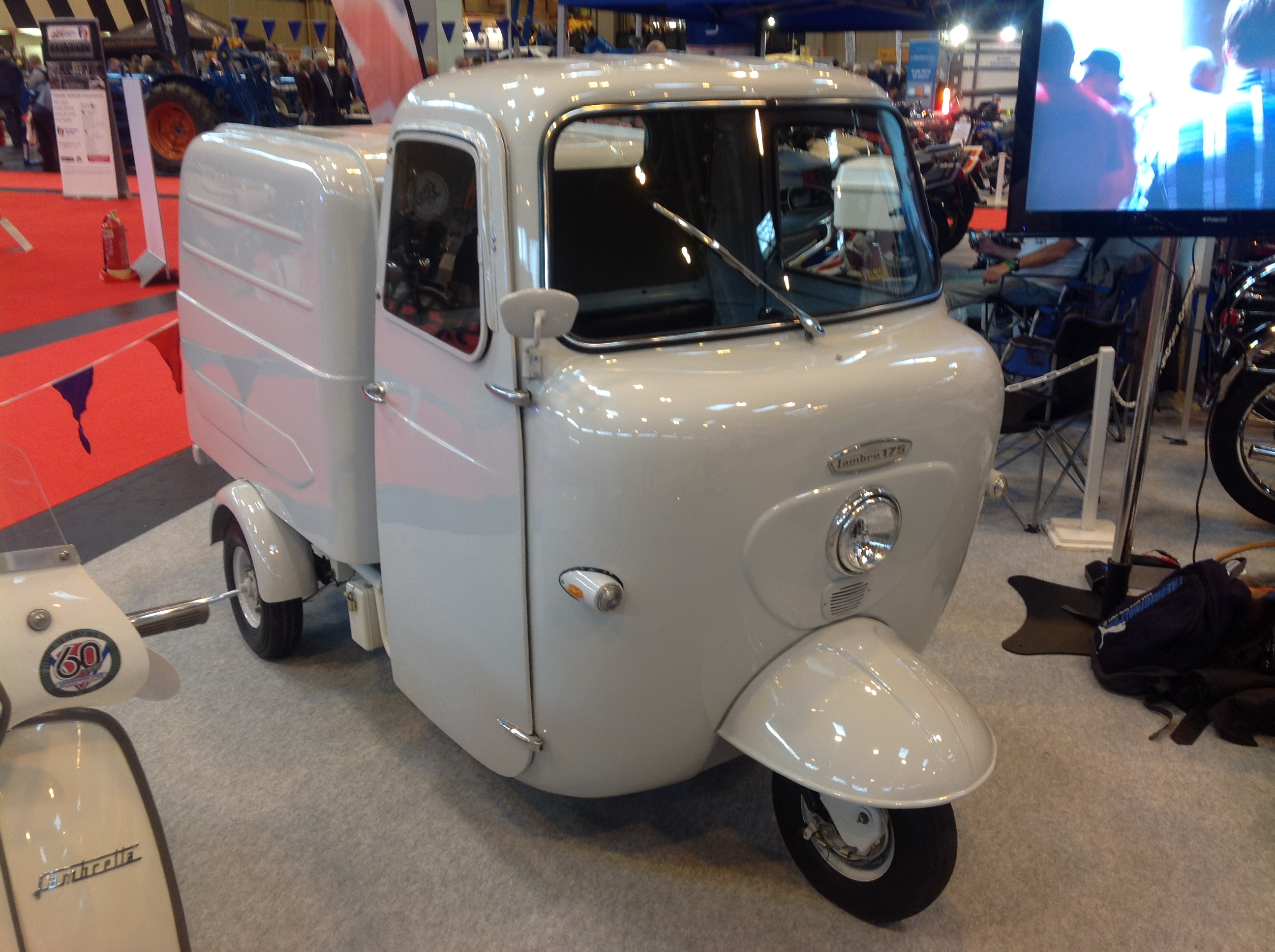 NEC Classic Car Show, 13 November 2015